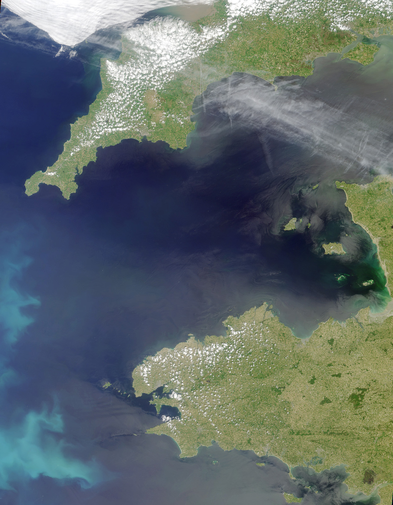 Satellite picture of the Celtic Sea and the English Channel between France and the United Kingdom.